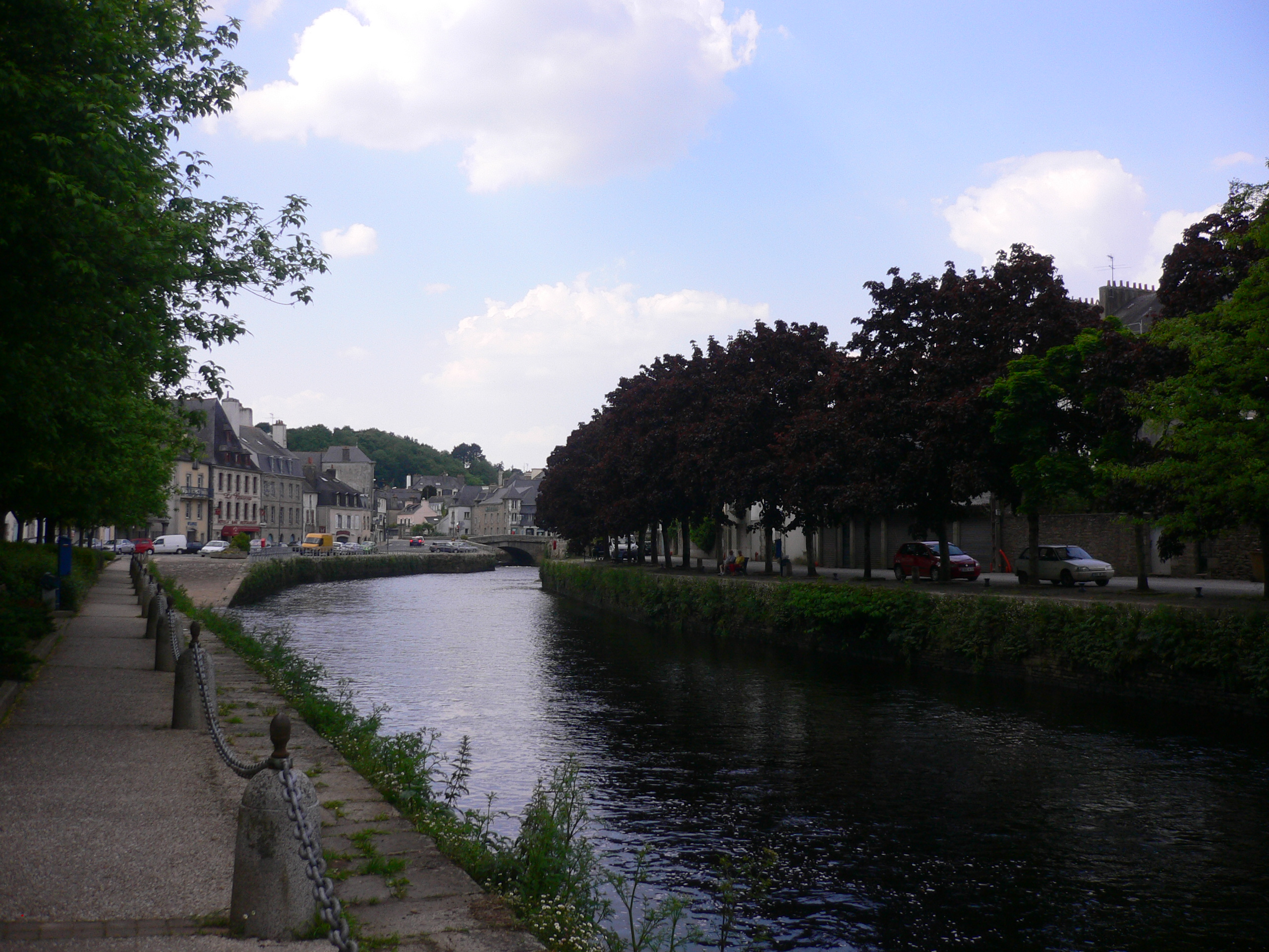 Laïta River at Quimperlé